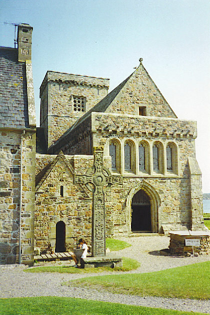 Iona Abbey, Entrance and St John's Cross.